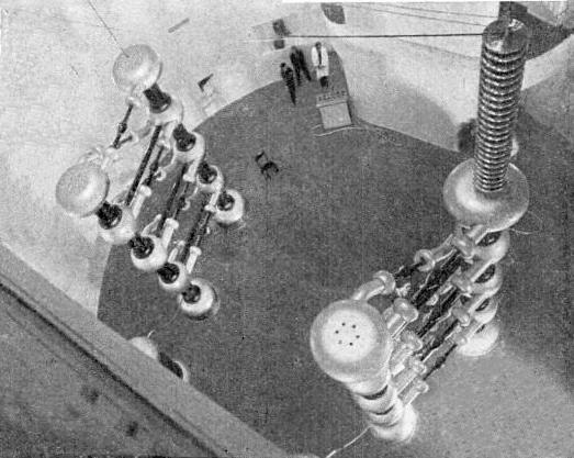 3 megavolt Cockcroft-Walton particle accelerator at Kaiser Wilhelm Institute of Physics in Berlin in 1937. The source claims it was the world's most powerful accelerator at the time. It consisted of two 4 stage Cockcroft-Walton voltage multiplier stacks of opposite polarity, with the high potential appearing at the top of the stacks applied to electrodes at opposite ends of an evacuated accelerator tube (not visible). Subatomic particles are accelerated to high speeds in the tube by the high potential. The black vertical segments on each stack are capacitors which store the charge, while the diagonal "rungs" between the columns are vacuum tube rectifiers called kenotrons, which only allow charge to pass in one direction. An alternating voltage of several hundred kilovolts is applied between the bottom of the columns, which act as a "charge pump" forcing charge into the top electrode. All exposed parts at high potential must have smooth gently curving surfaces to prevent corona discharge which causes leakage of current into the air. The output voltage of this machine was close to the limit for open-air electrostatic generators; even modern Cockcroft-Walton machines cannot produce more than about 5 megavolts. Alterations to image: cloned in a small amount of wall behind lefthand column to replace overlap of adjacent picture on page.